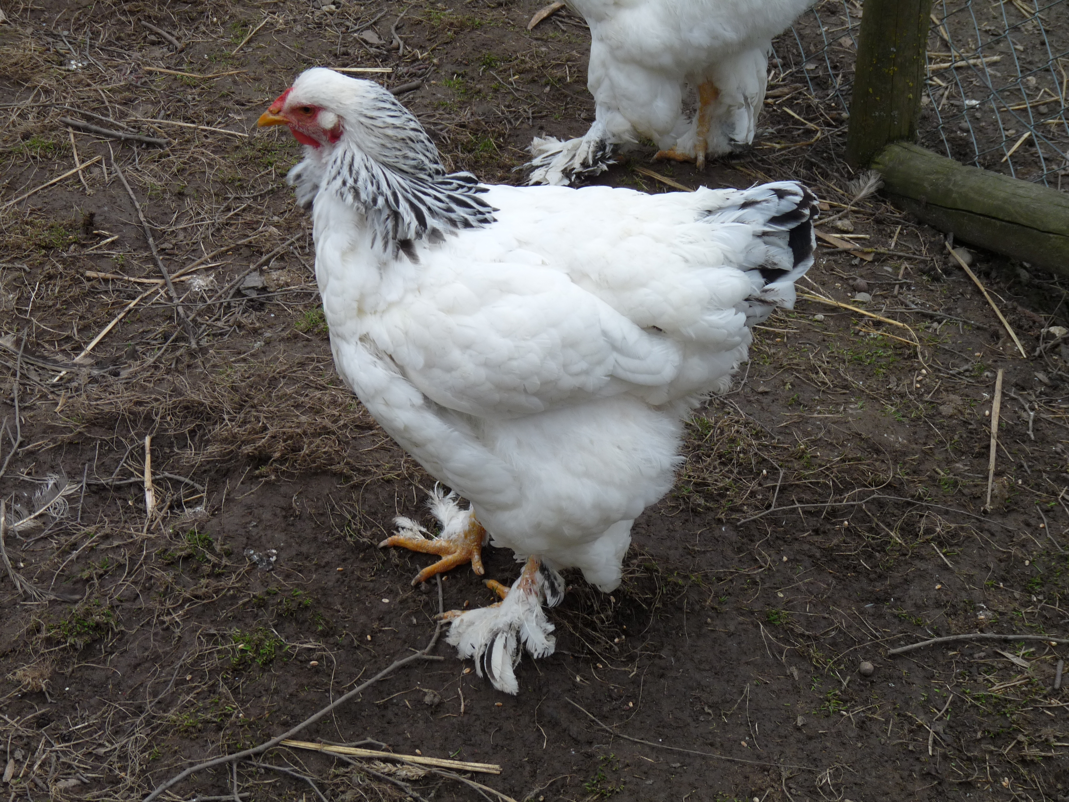 A Brahma chicken in German zoo 'Reutemühle' near Überlingen, Lake Constance